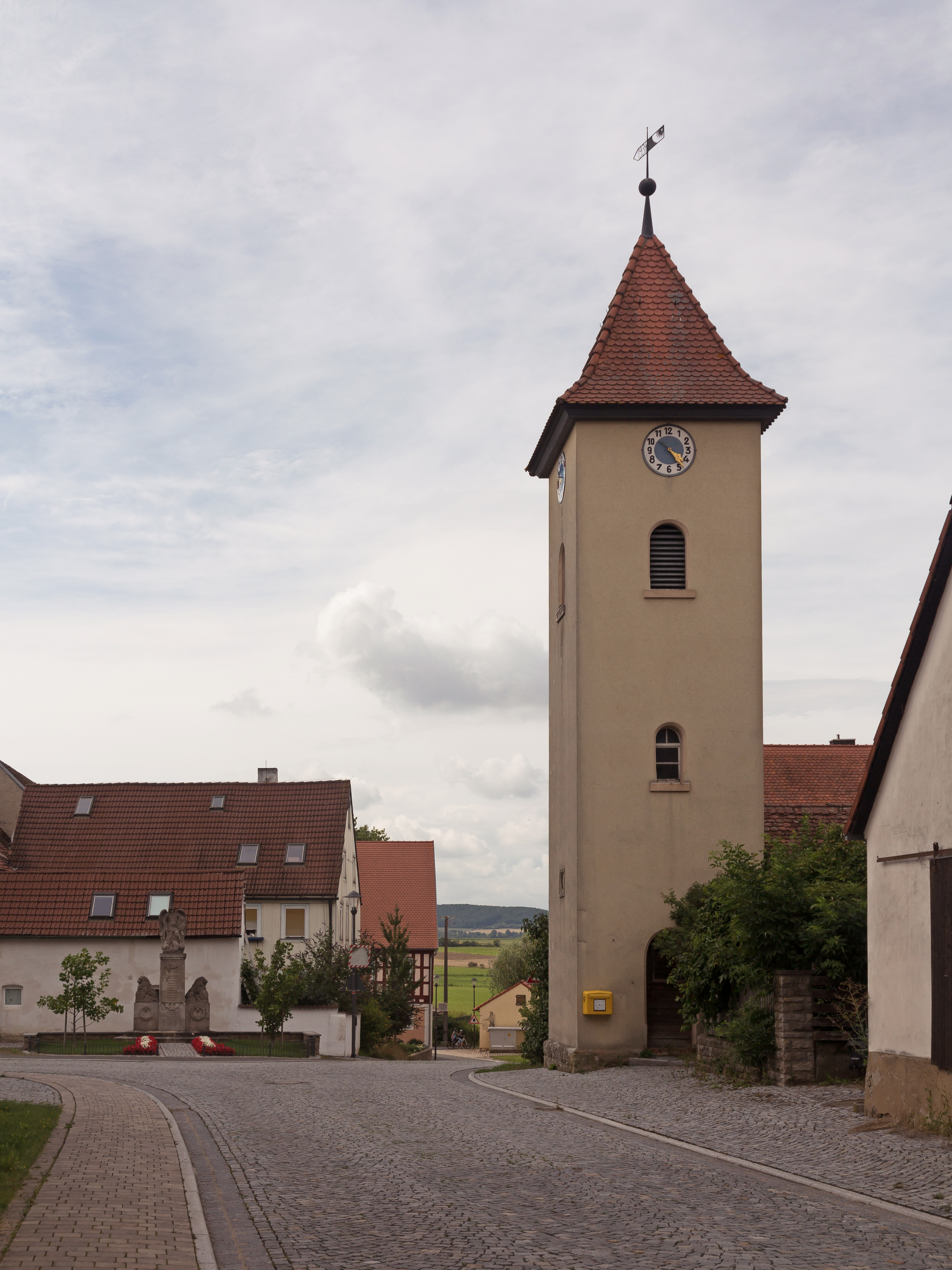 Dietersheim, church in der HauptstrasseThis is a photograph of an architectural monument. me , it's not a Denkmal